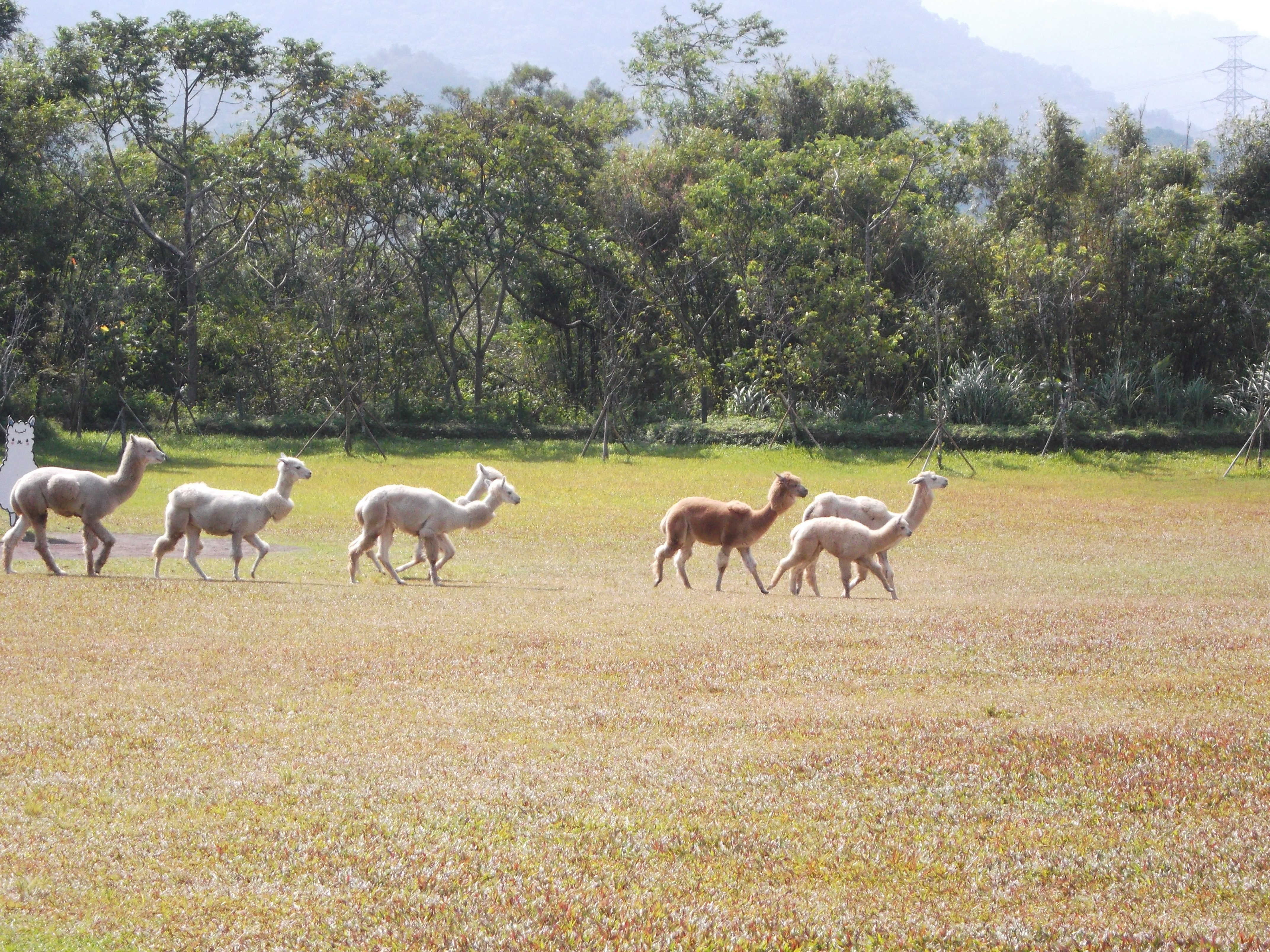 Alpacas were walking on Green World Show of Green World Ecological Farm.